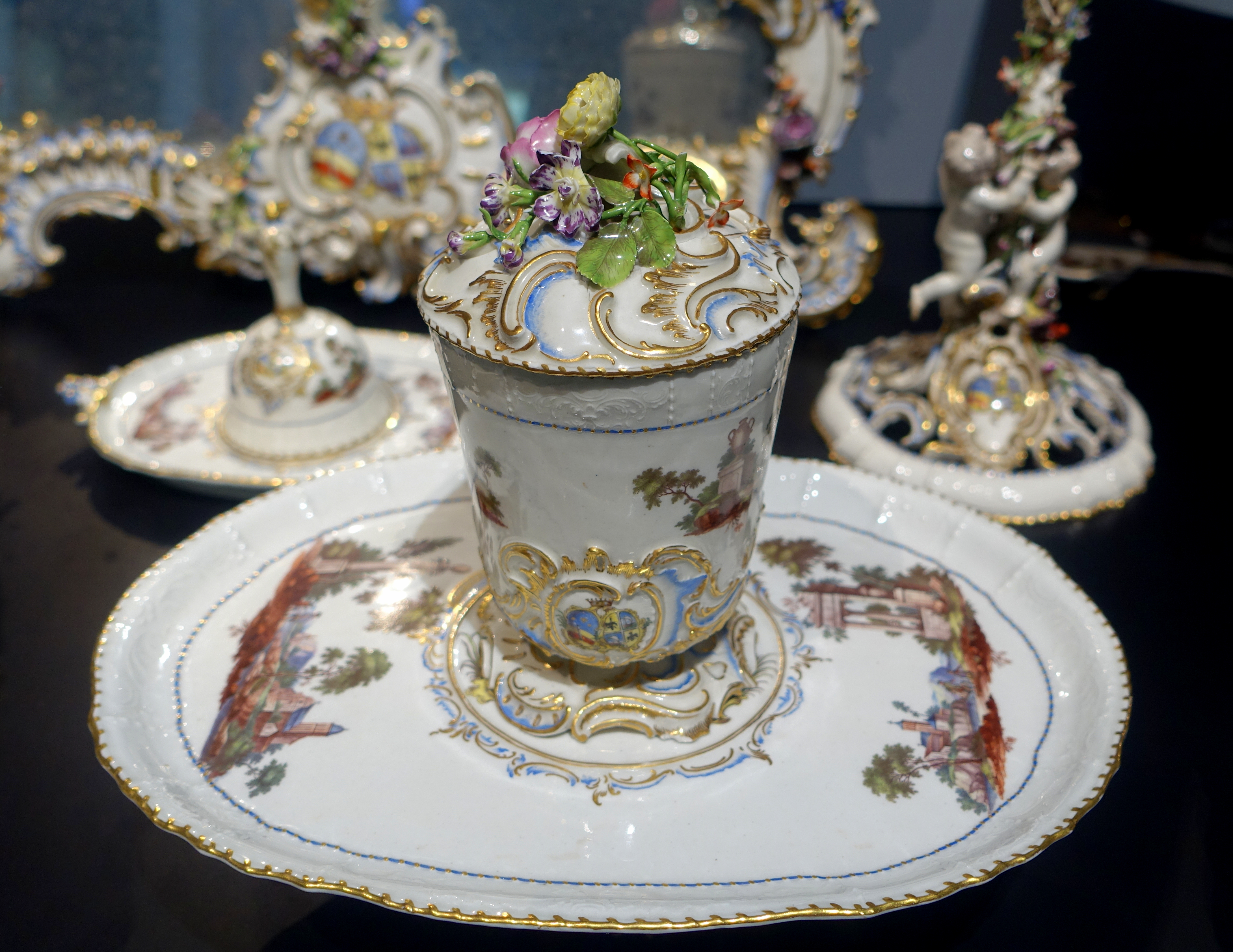 Exhibit in the Landesmuseum Württemberg - Stuttgart, Germany.